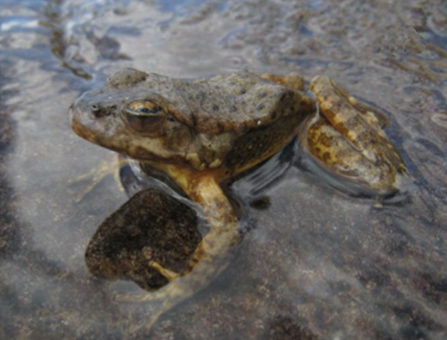 Appearance of mountain yellow-legged frogs (Rana muscosa) and during a chytridiomycosis outbreak in Sixty Lakes Basin, Sierra Nevada Mountains, California. A frog showing clinical signs of severe chytridiomycosis including abnormal posture.